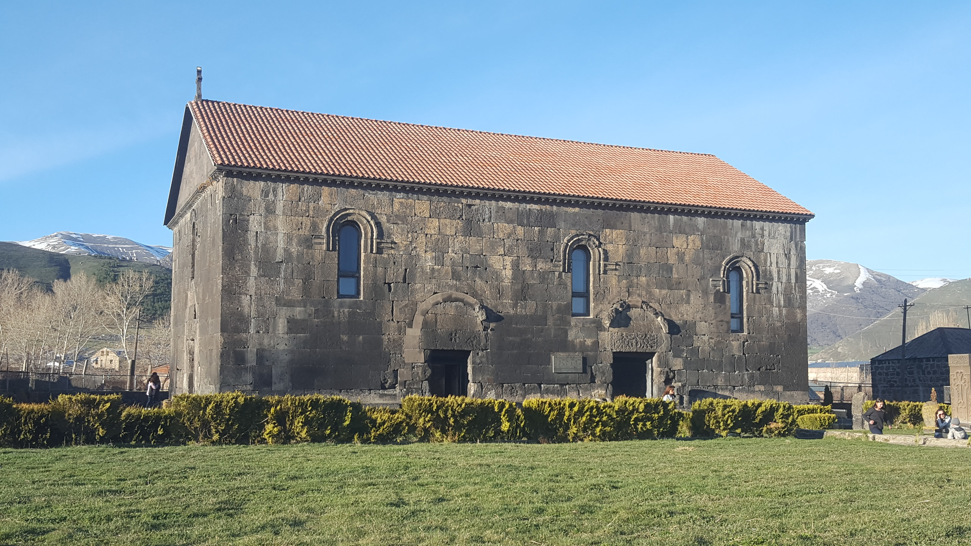 Kasagh Basilica